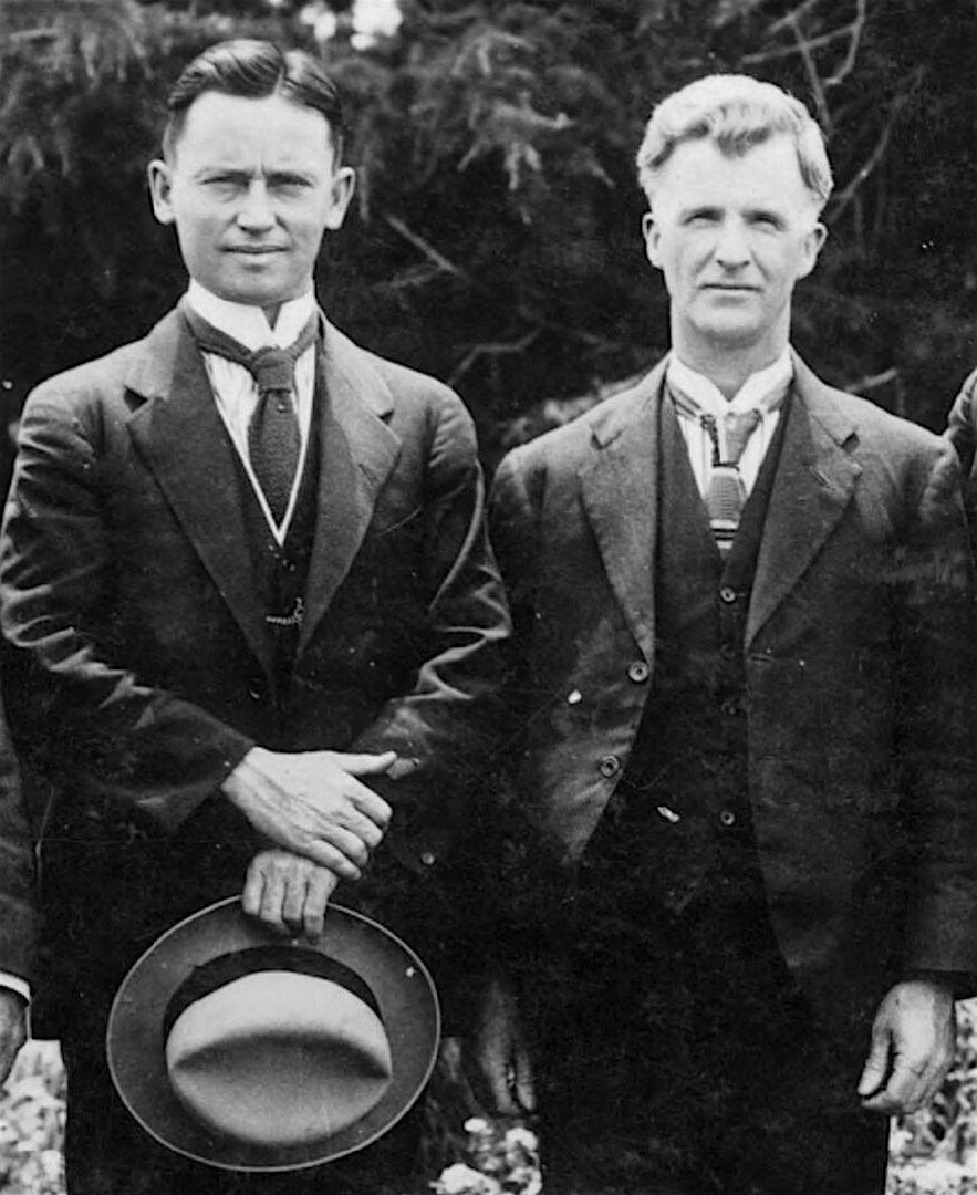 A young Frank Forde (left) with James Scullin.